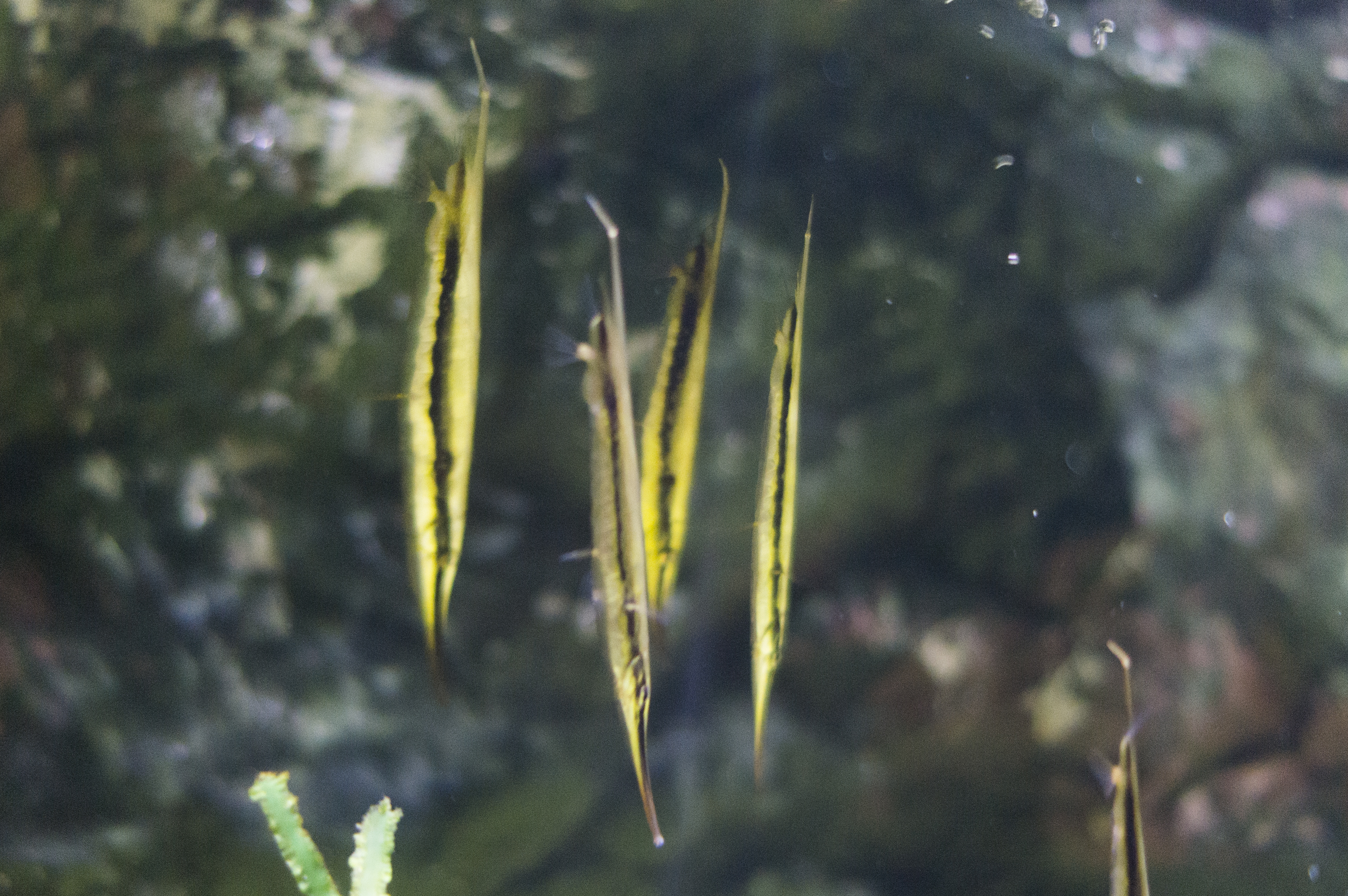 8 (with the LA-EA2 adapter) Wanted to test my new LA-EA2 and, what can I say, it rocks. It makes the NEX bulkier but you can always leave it at home when traveling and put a Sigma 30mm, making it a truly modular system.